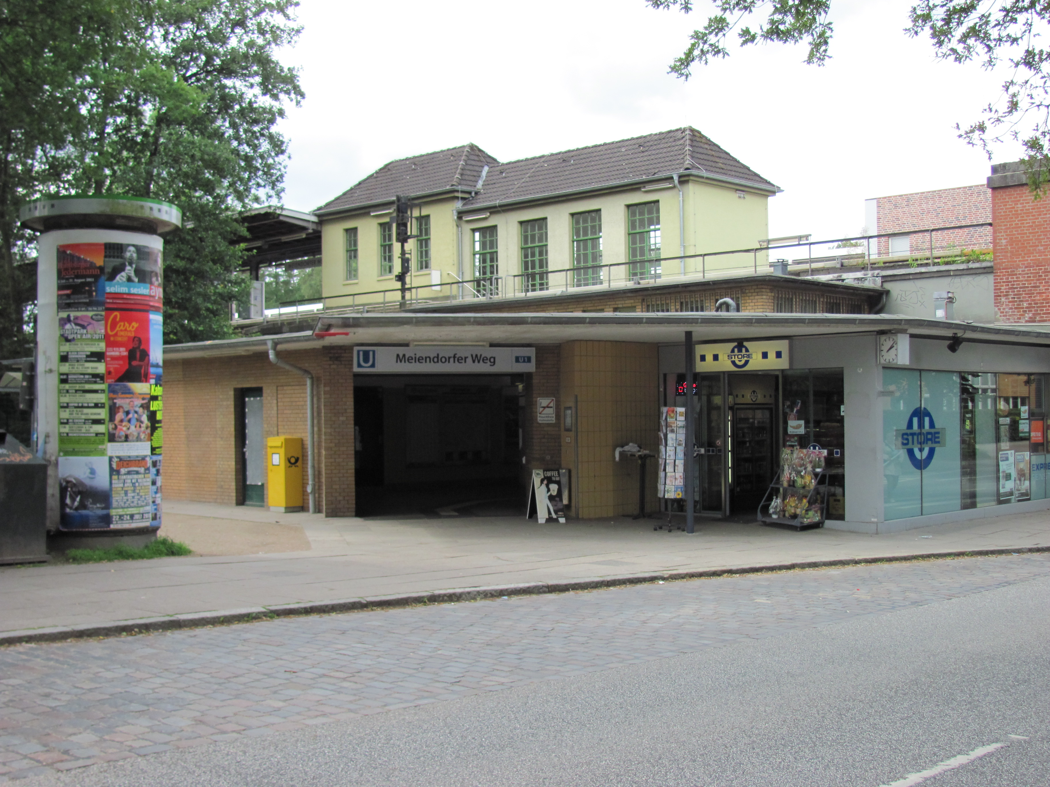 U-Bahn station Meiendorfer Weg in Hamburg, Germany